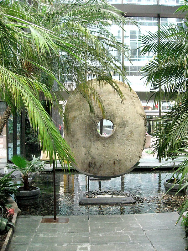 A "Rai" stone from the Pacific island of Yap. Such stones were used as currency until the 1960s. This Rai stone at the Currency Museum, Ottawa, weighs about three tons.